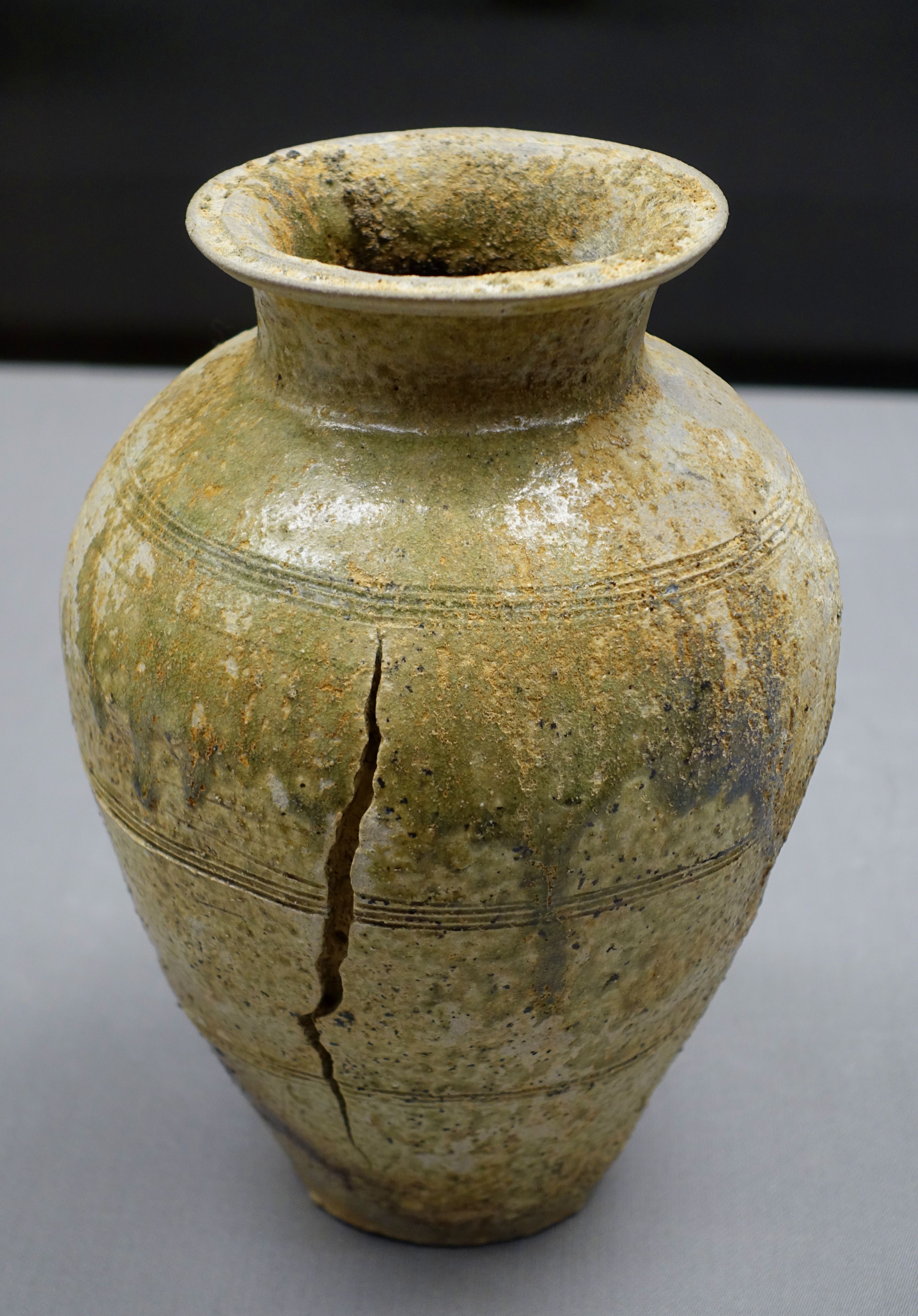 Exhibit in the Tokyo National Museum, Tokyo, Japan. This work is old enough so that it is in the public domain.